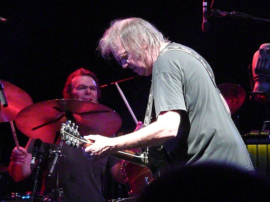 Neil Young (in front) and drummer Chad Cromwell at the Trent FM Arena in Nottingham.